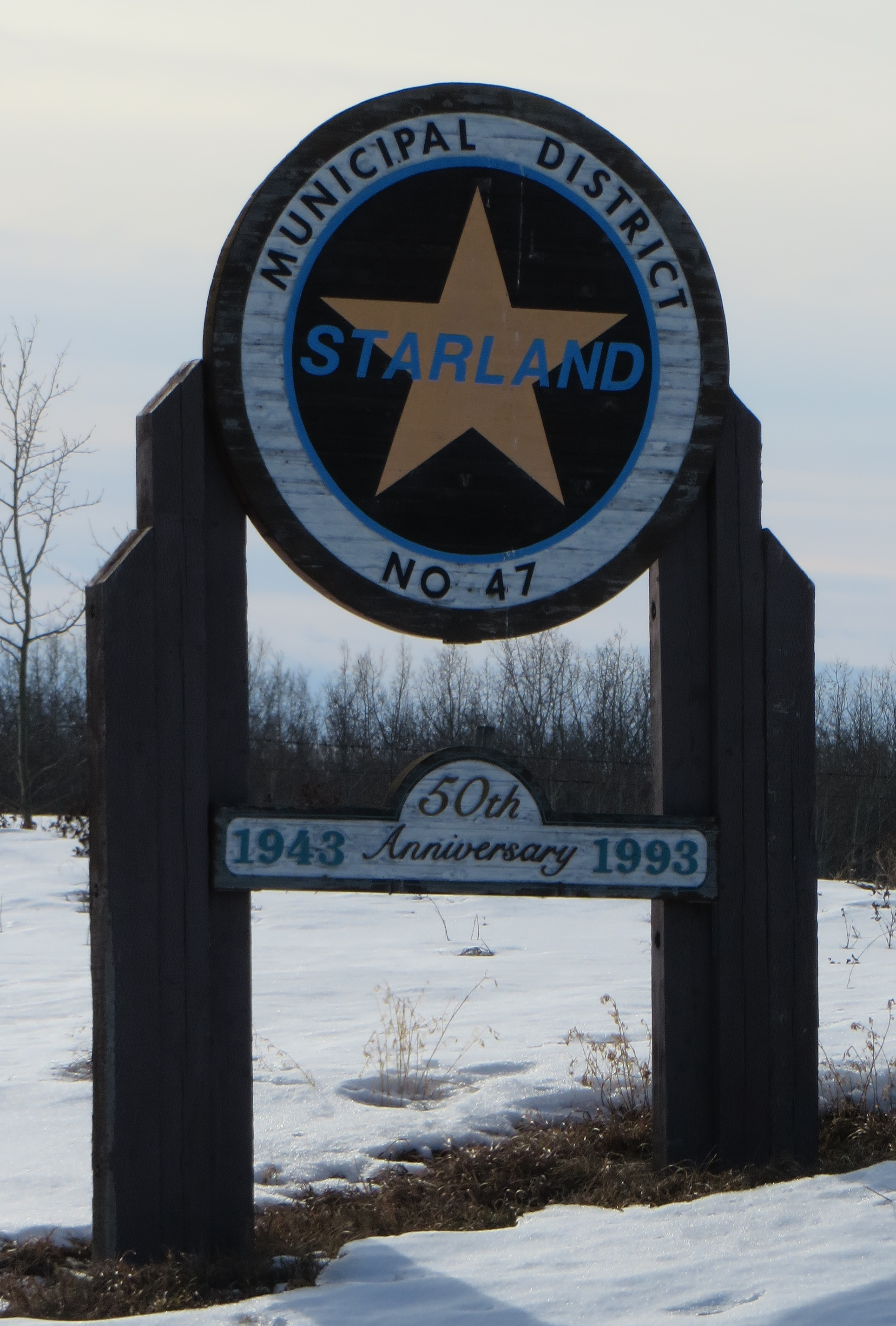 This is the sign that marks the boundary of the M.D. of Starland No. 47 in Alberta, Canada.